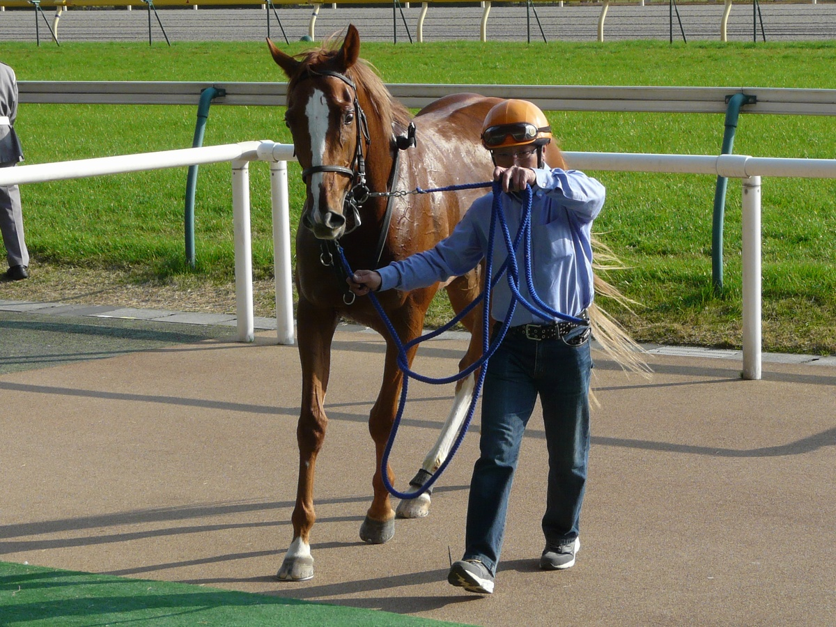 Nakayama-Knight20101128